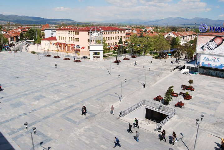 Square Goce Delcev (Strumica)